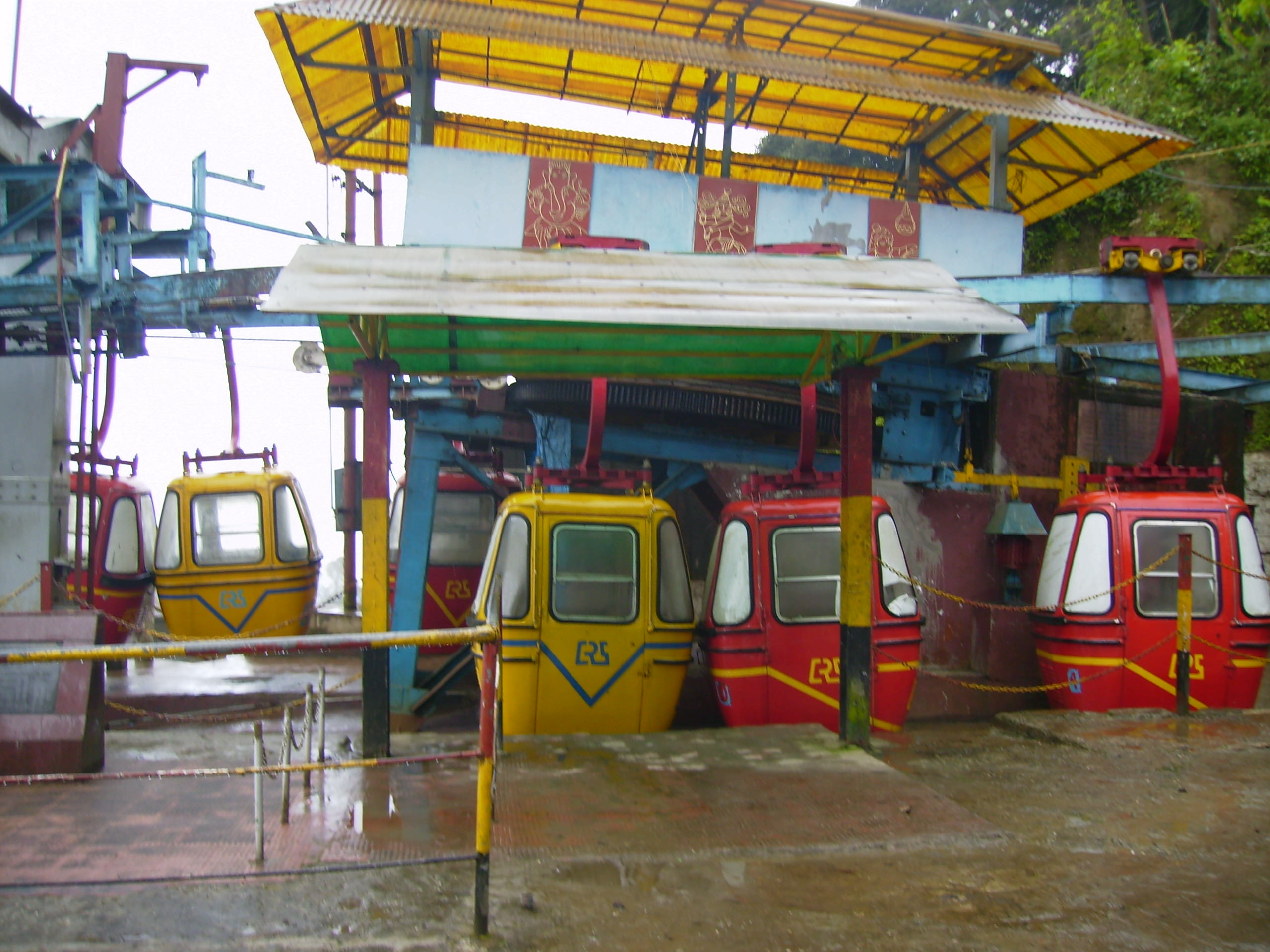 A photograph of the Darjeeling Ropeway taken on 21st August 2008.